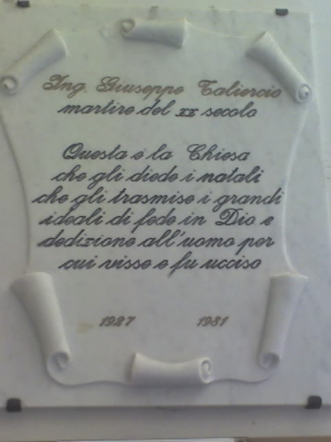 Plaque in the church of the Holy Family in Marina di Carrara, in memory of Joseph Taliercio